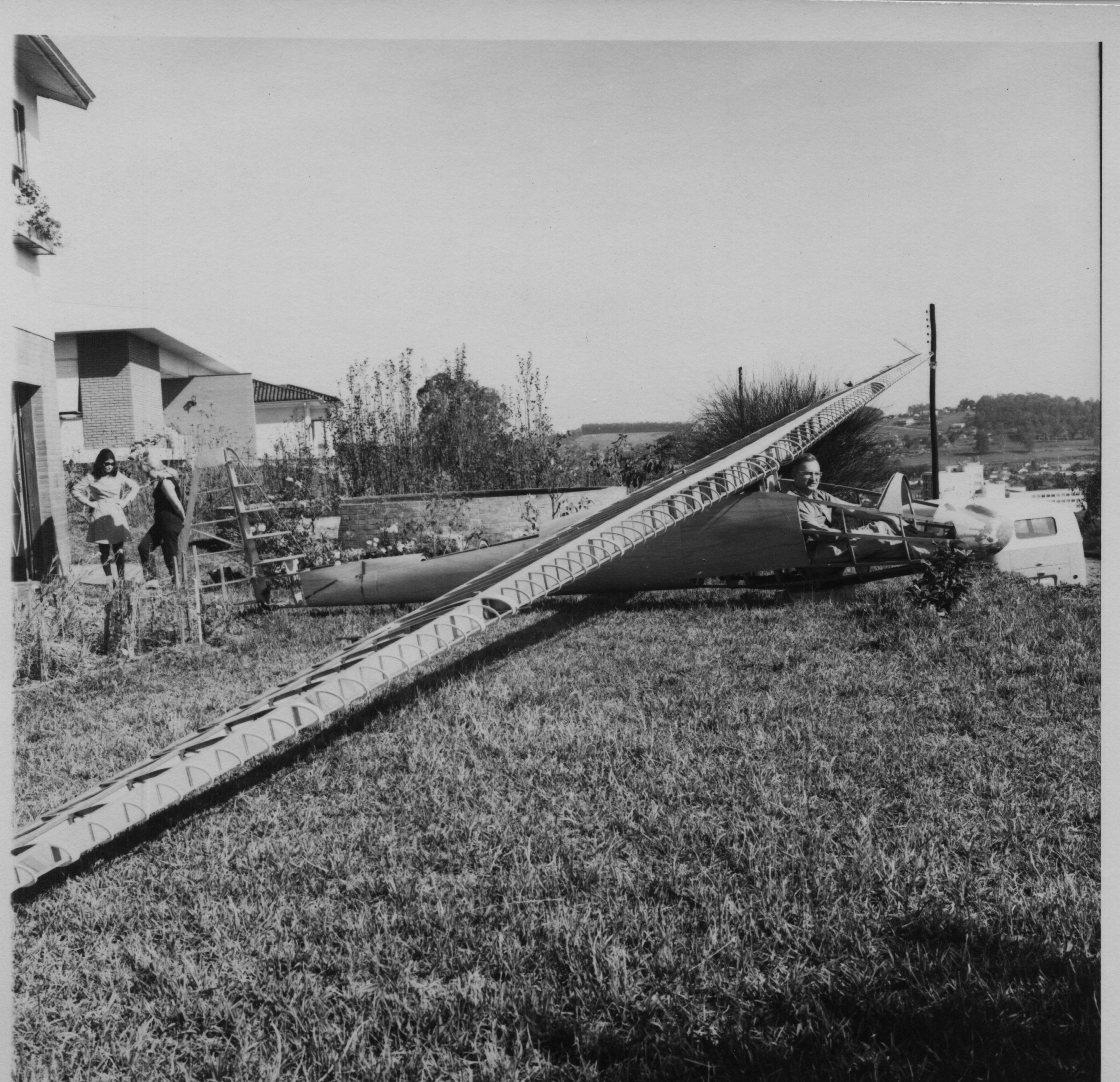 View of the sailplane KW-1 "Quero-quero" and its designer and constructor, during the construction phase, in front of his house, in Novo Hamburgo. Picture taken at 1967.